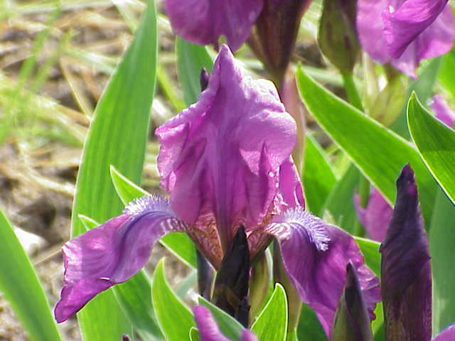 Species: Iris germanica Family: Iridaceae Image No. 1